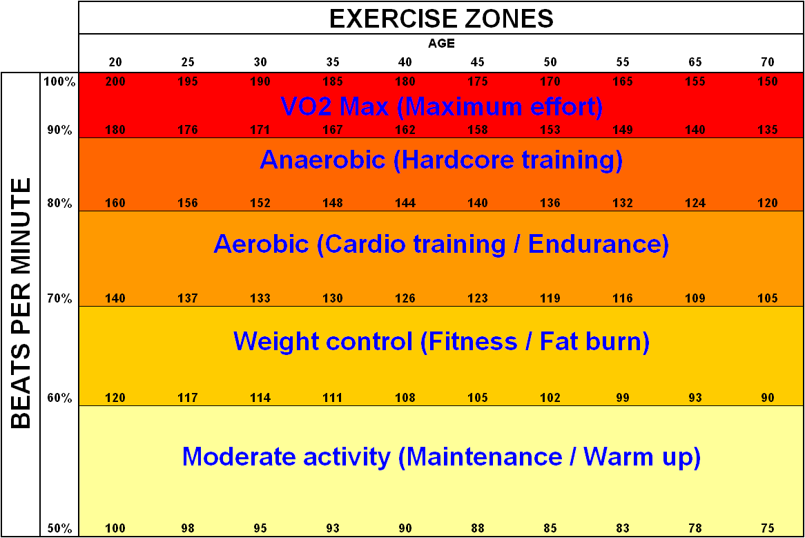 Exercise work zones (Fox and Haskell formula between 20 and 70-year-old): red zone (VO2Max), anaerobic, aerobic, weight control and warming up.